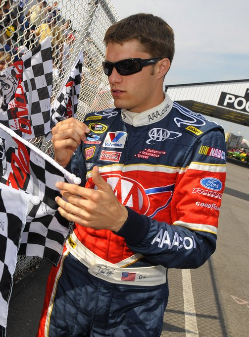 David Ragan signs autographs for the fans, 06/06/08